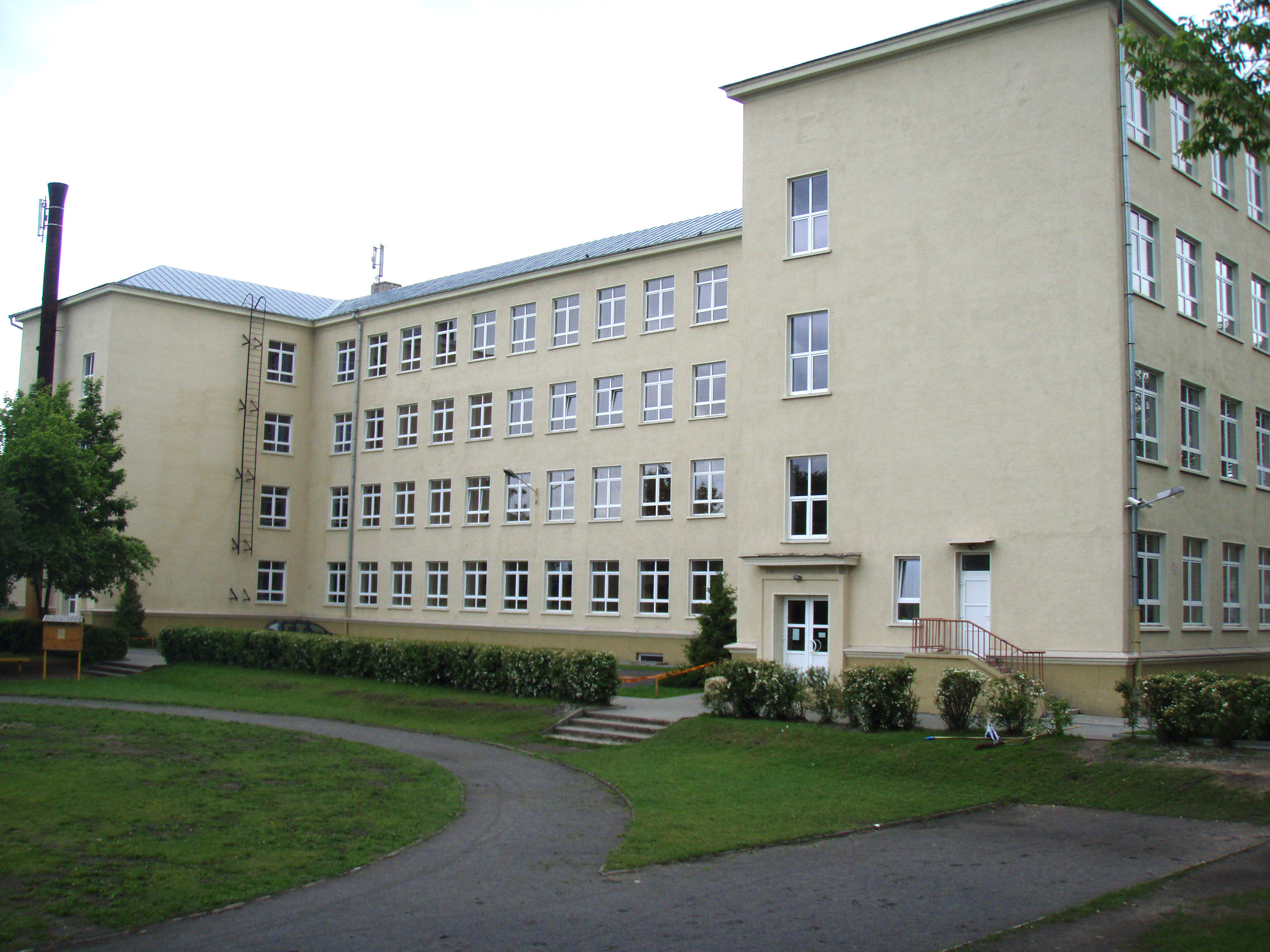 Vilnius Žvėrynas gymnasium, Lithuania Vilniaus Žvėryno gimnazija